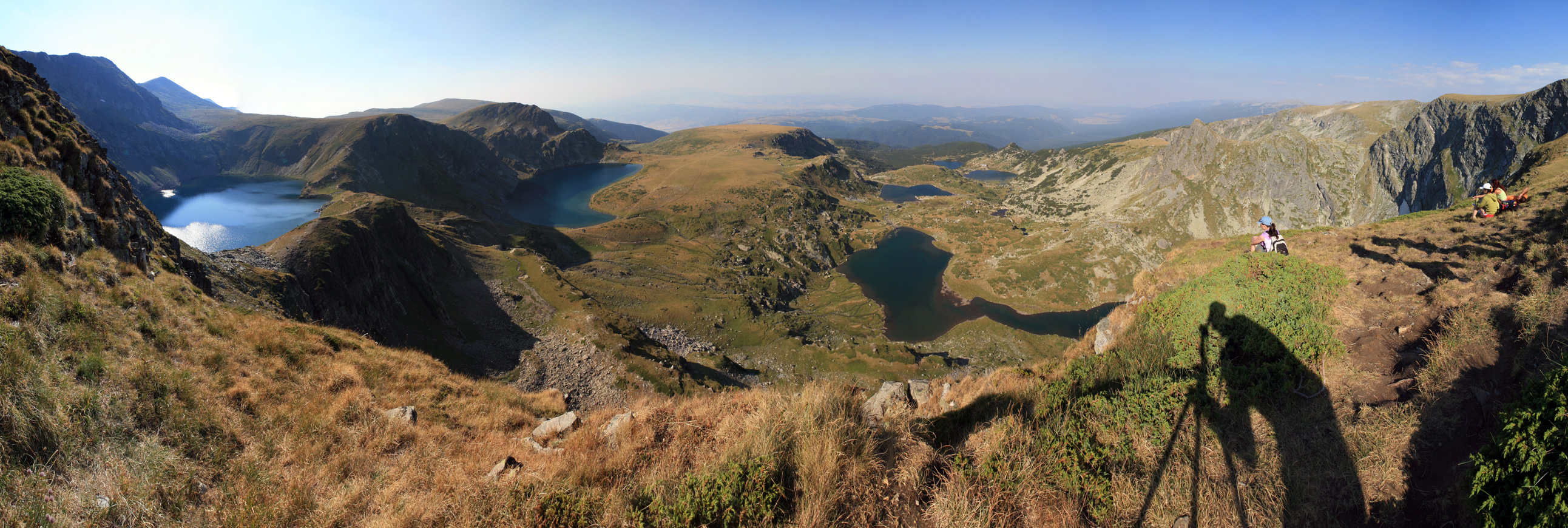 Panoramic view from Mount Ezeren. Lakes visible (left to right) - Okoto, Babreka, Bliznaka, Trilistnika, Ribnoto and Dolnoto.